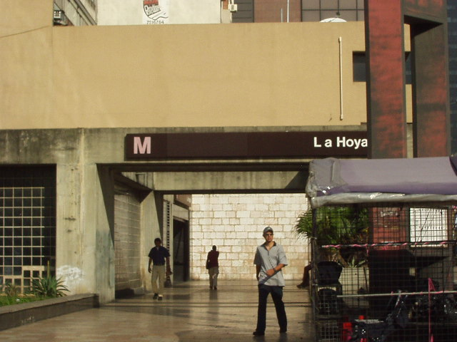 Salida de la estación de metro de Caracas La Hoyada